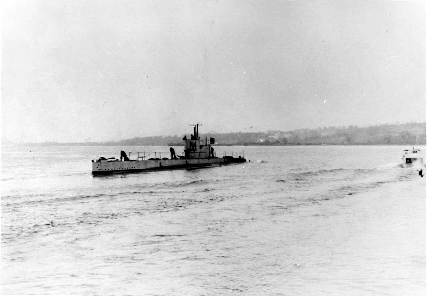 United States Navy submarine